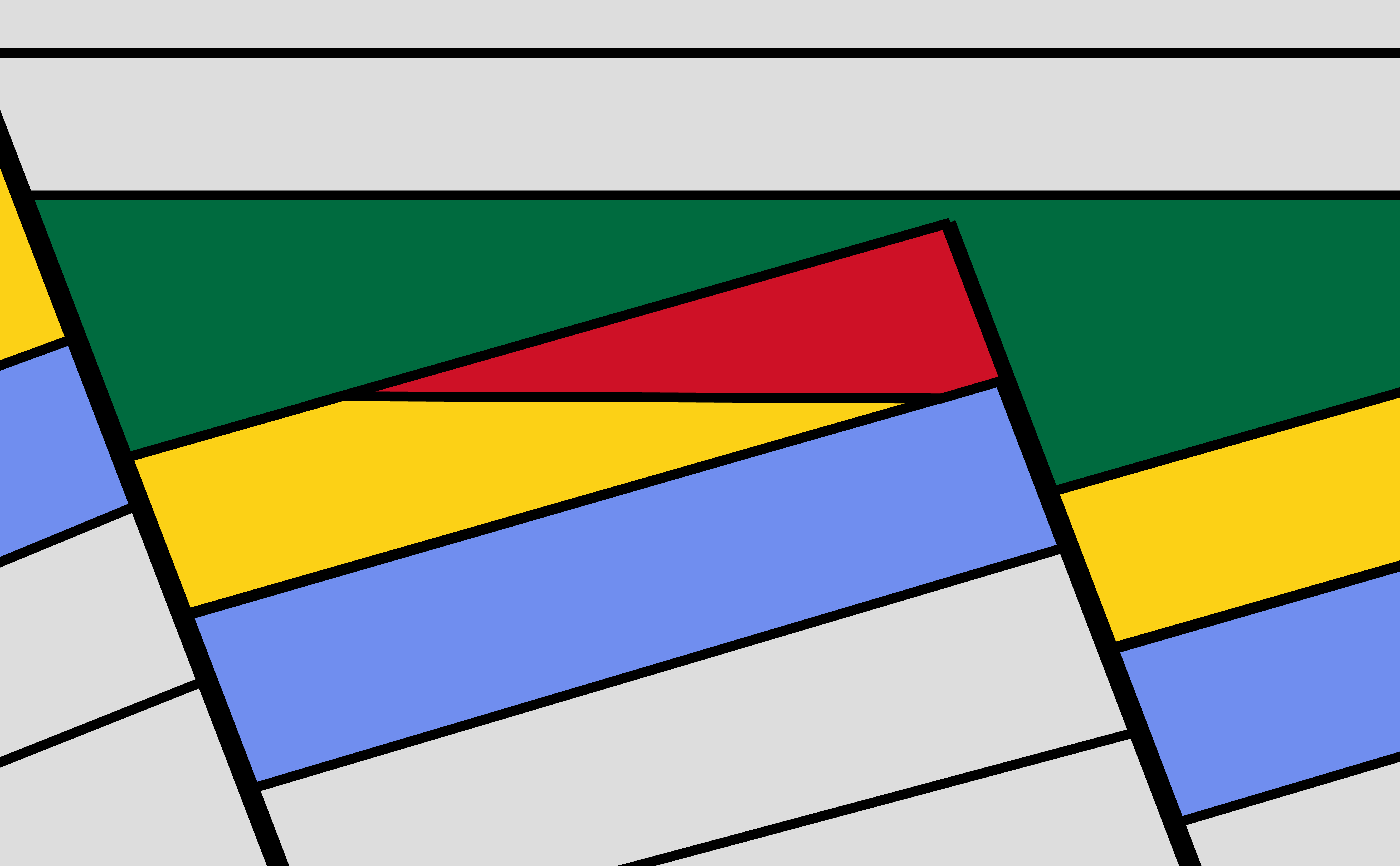 Blue: source rock, yellow: reservoir rock, green: seal rock, red: hydrocarbons